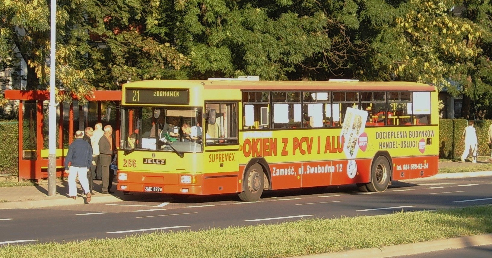 Jelcz 120M bus (#266) in Zamość, Poland. Built 1997, MPK Zamość operator.